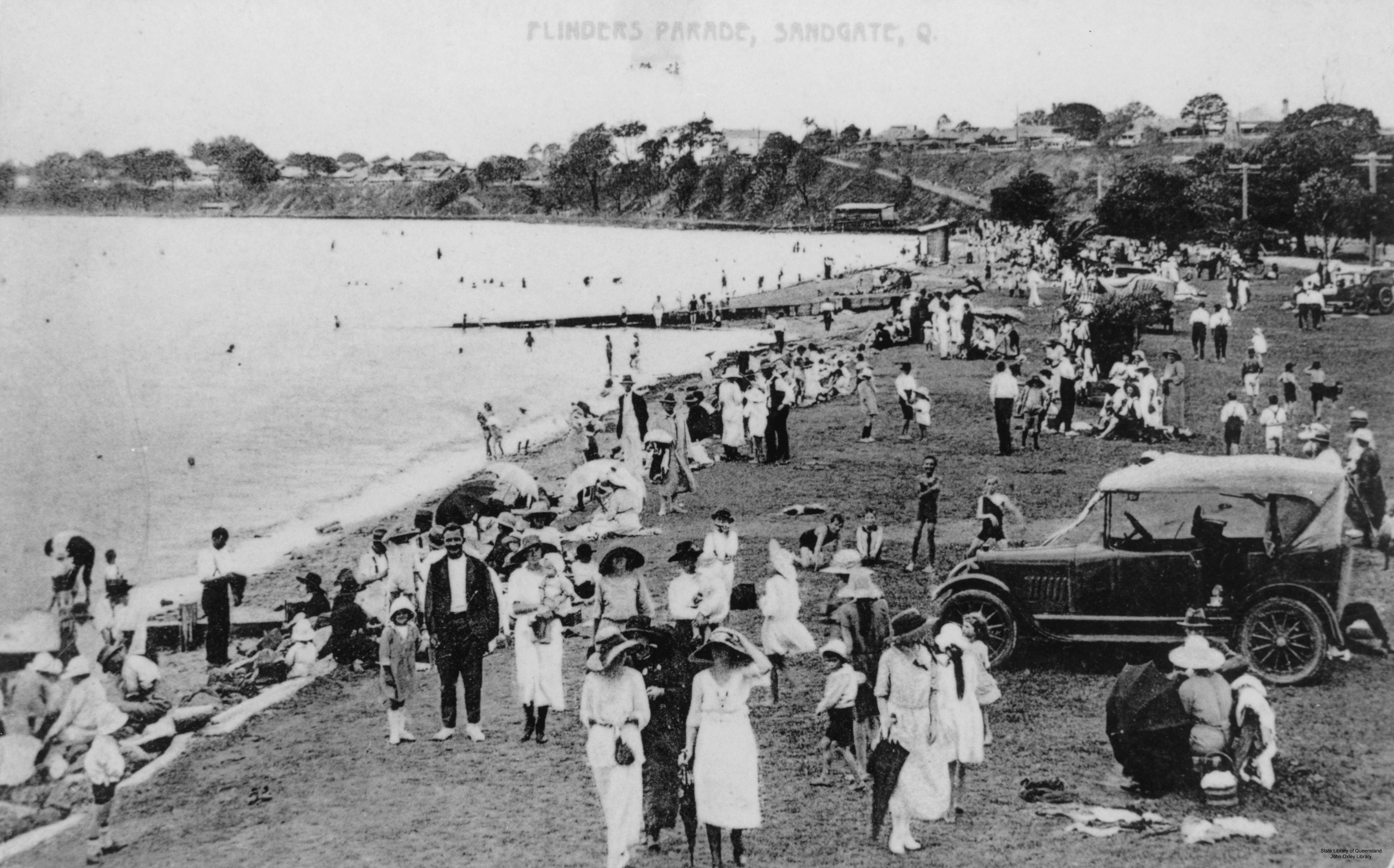 Holidaymakers at Sandgate, ca. 1920-1930. A large crowd enjoys the water and beach at Sandgate. The women wear sunhats and carry umbrellas and a motorcar can be seen parked on the beach in the foreground. Caption on original: White's views of Queensland. Printed in Saxony. Flinders Parade.